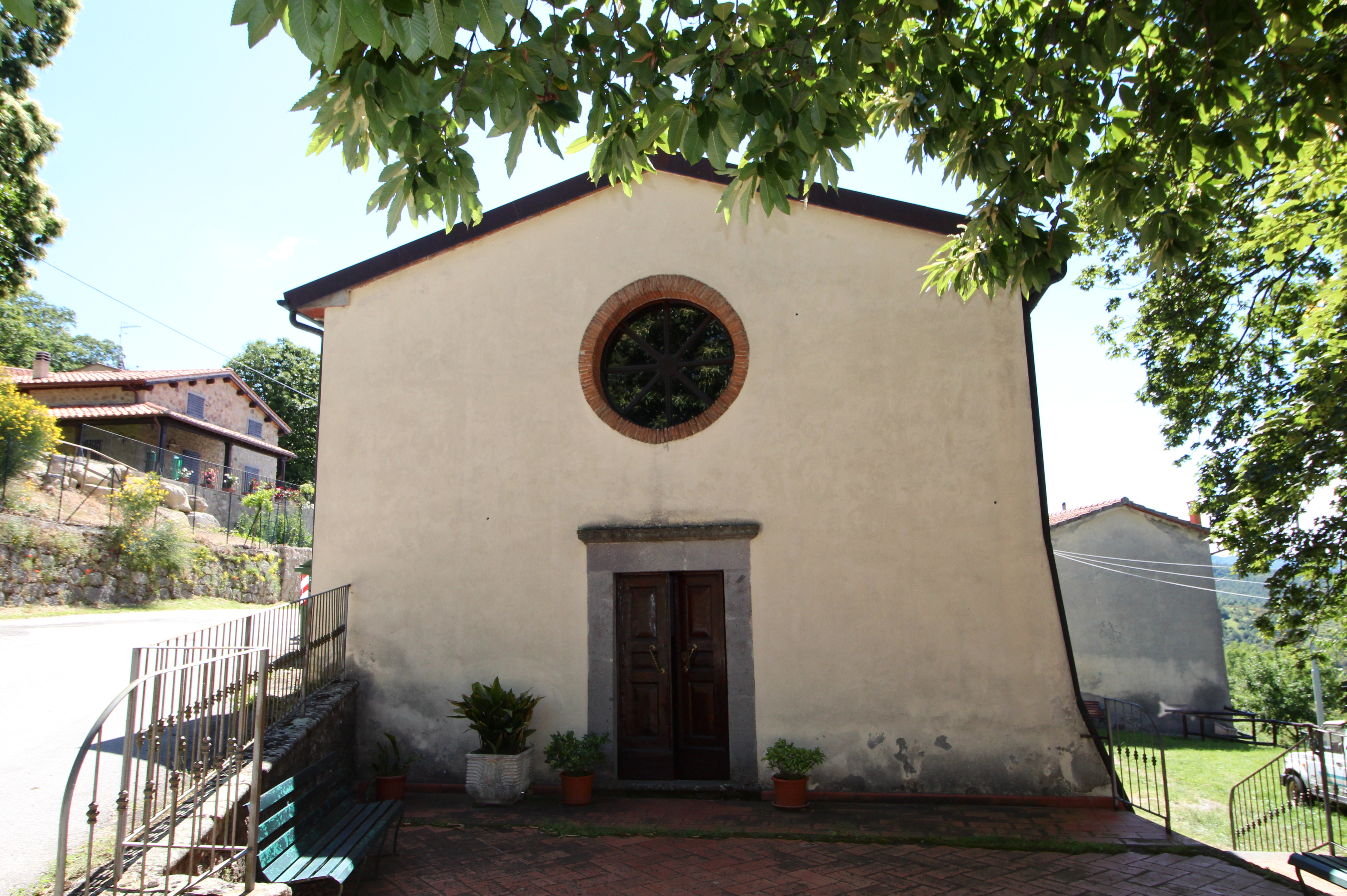 Church Madonna del Rosario, Bagnolo, hamlet of Santa Fiora, Province of Grosseto, Tuscany, Italy